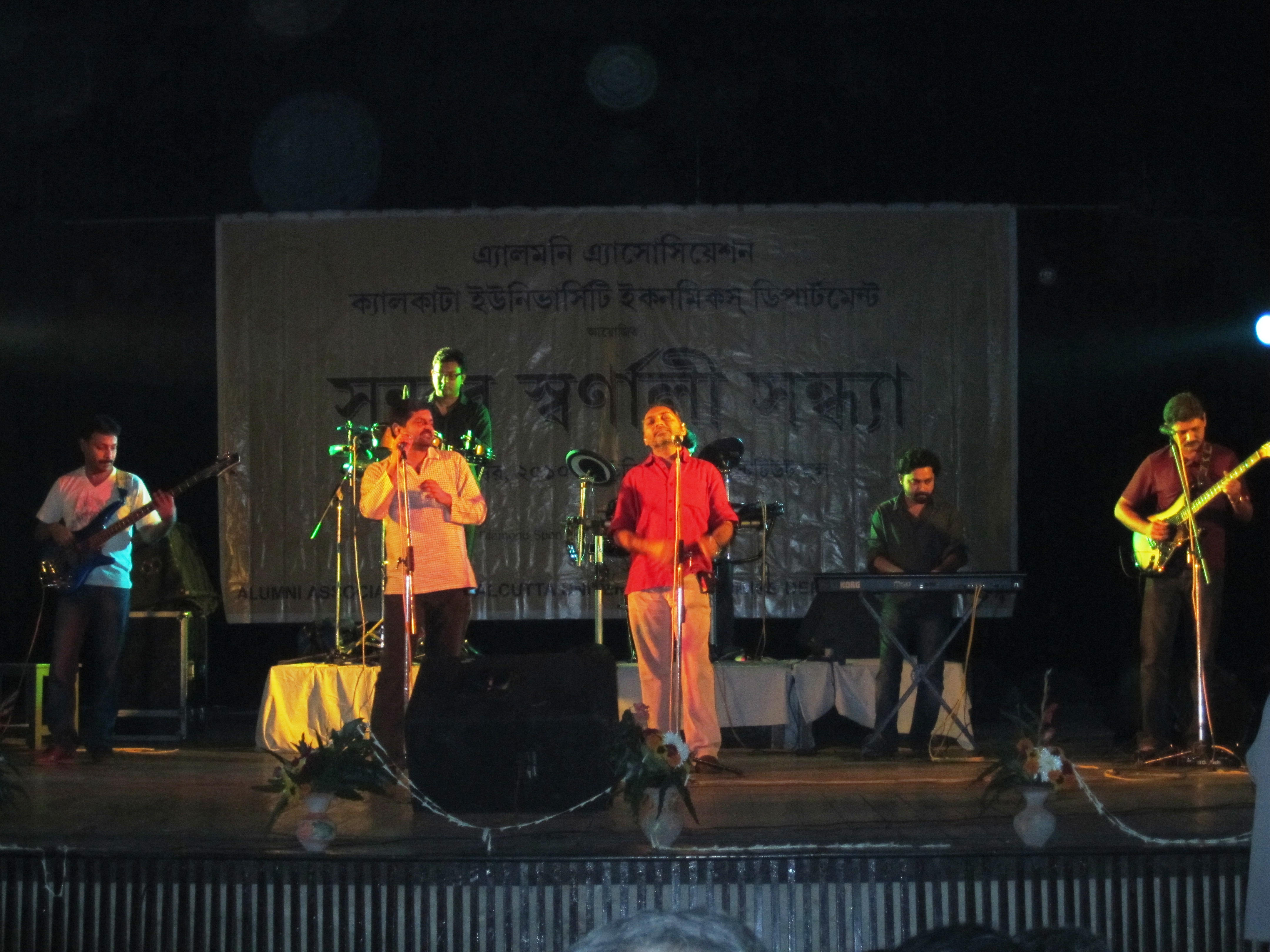 Six members of Chandrabindoo, a well-known Bangla band, are performing in a light-sound arranged stage of Alumni Association Calcutta University Economics Department meet-up cultural evening in 28th November, 2010 in front of a banner having something written in bengali on it. left to right: Arup, Saurabh, Upal, Rajshekhar (almost invisible), Anindya, Sibu and Surojit